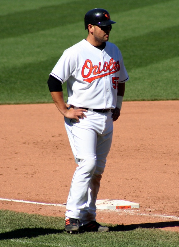 Ramón Hernández contemplates running home. It didn't work out.